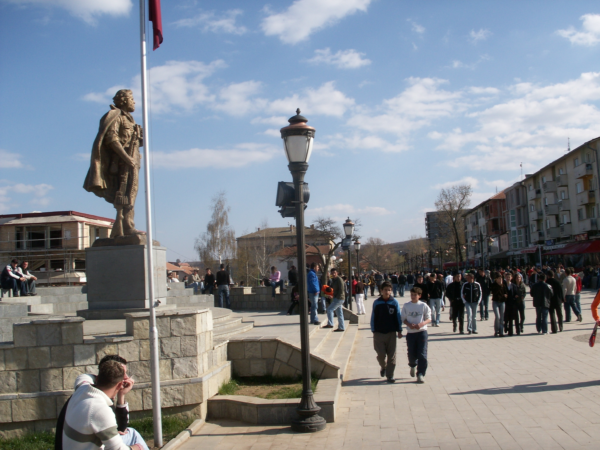 A photo of the Kosovar town Skenderaj